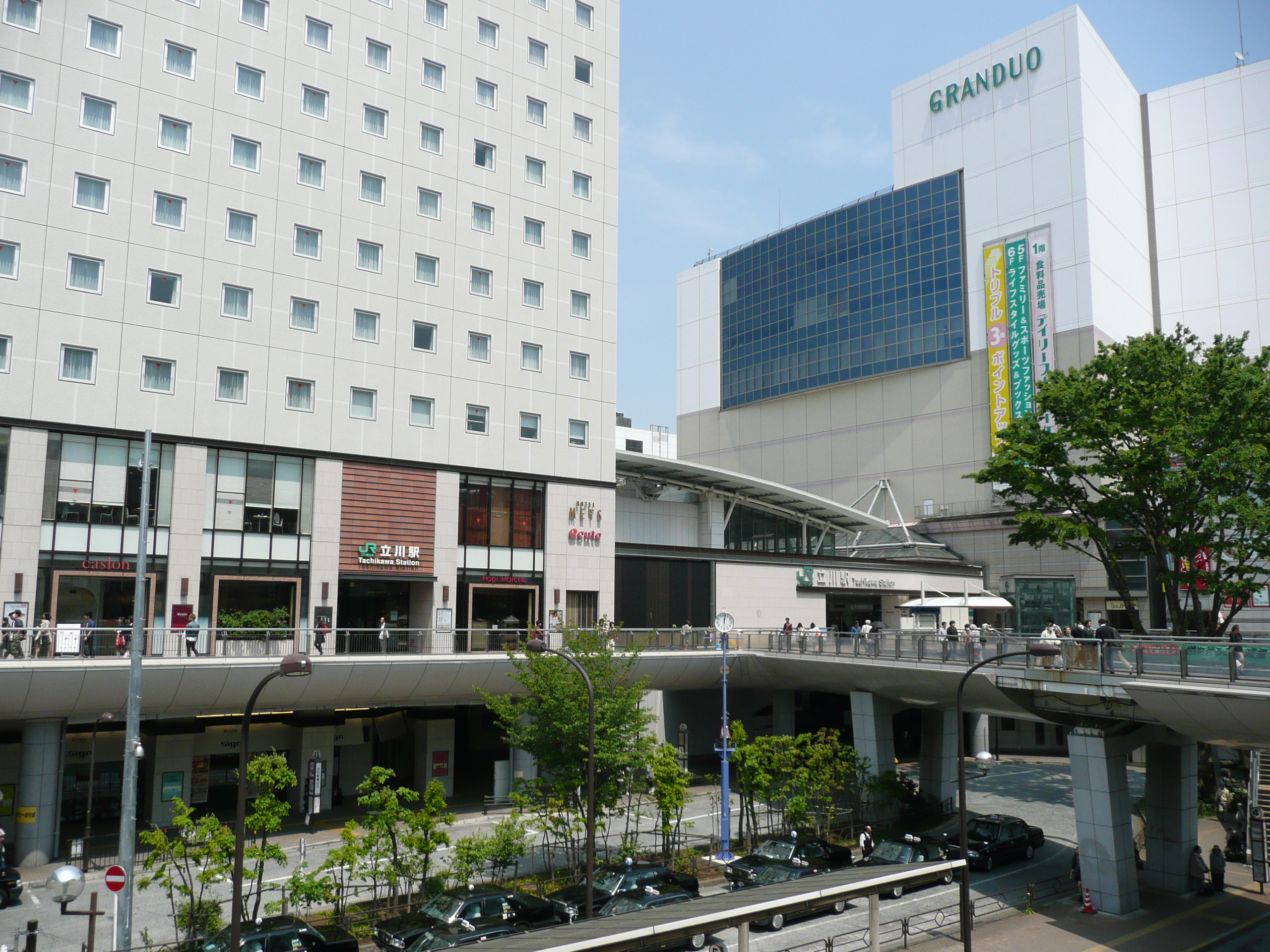 South Entrance of Tachikawa Station